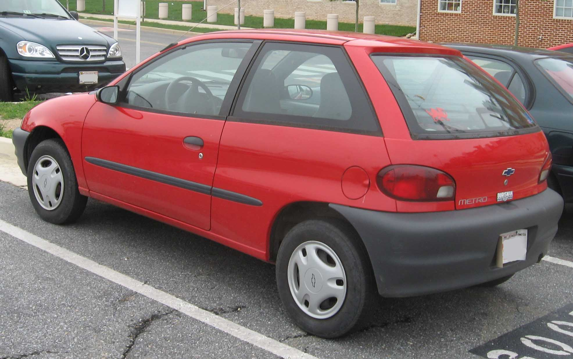 1998-2000 Chevrolet Metro photographed in College Park, Maryland, USA.